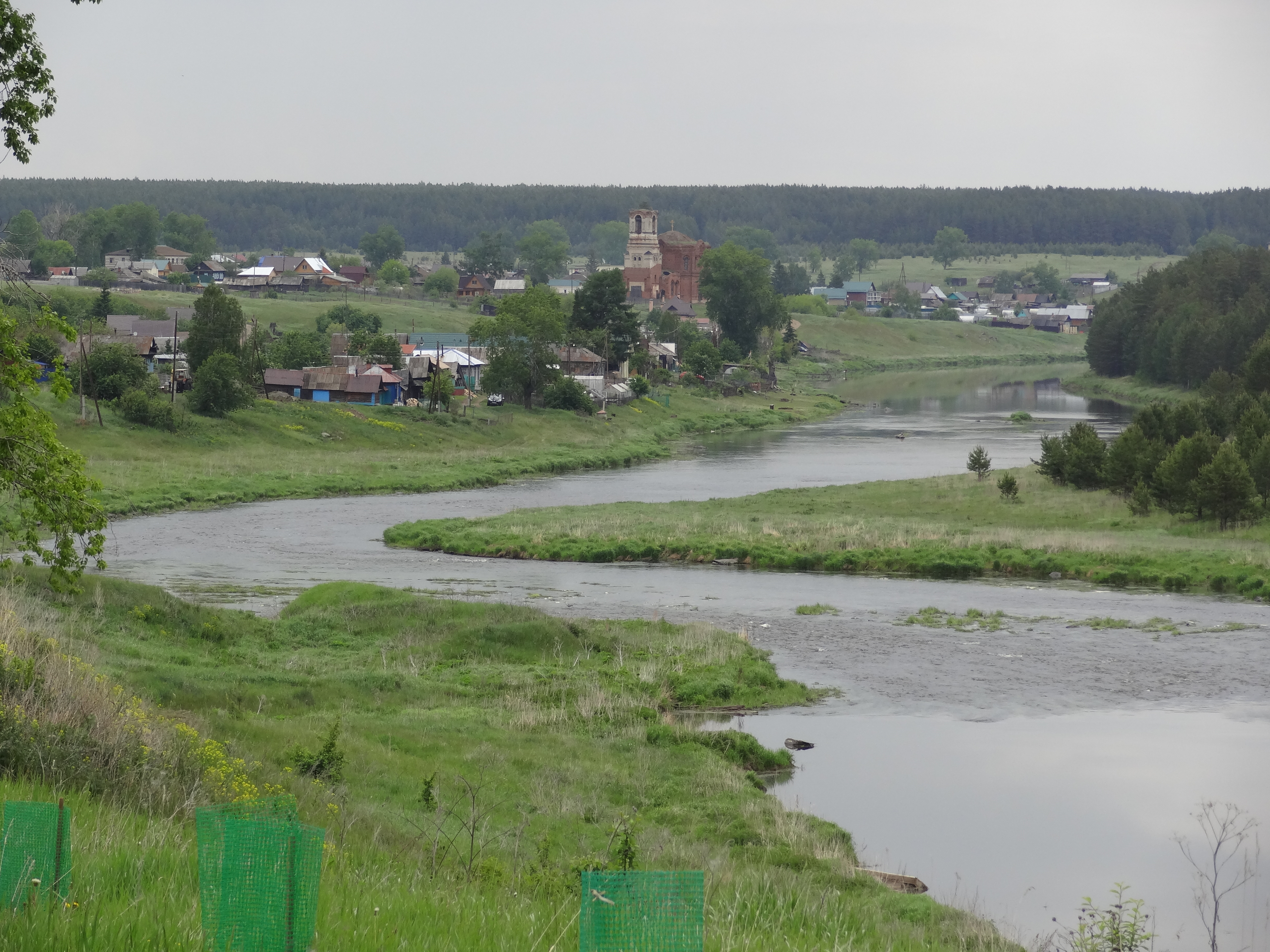 Isetskoe village, Sverdlovsk Oblast, Russia.